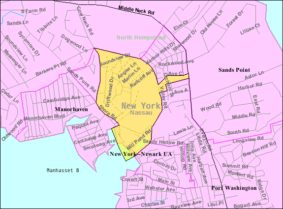 U.S. Census 2000 reference map for Port Washington North, New York